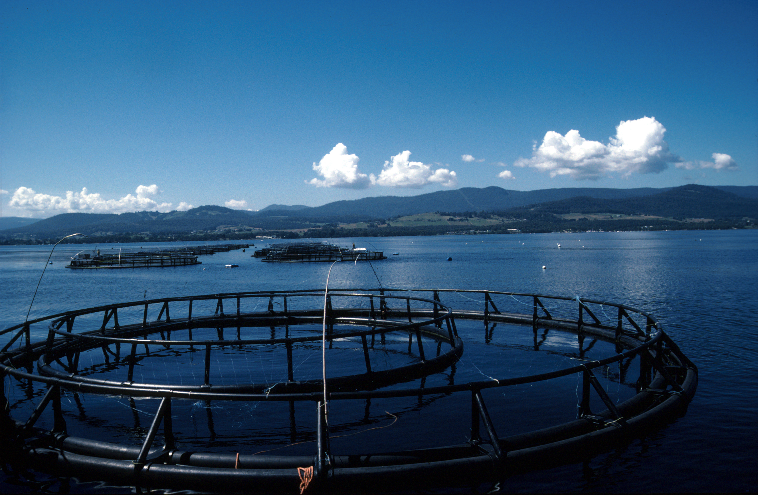 Salmon cages. Australia's aquaculture industry has an annual value of more than 00 million and is expanding at the rate of 20% per year. CSIRO is the country's largest supporter of aquaculture research, injecting .5 million into the industry each year.